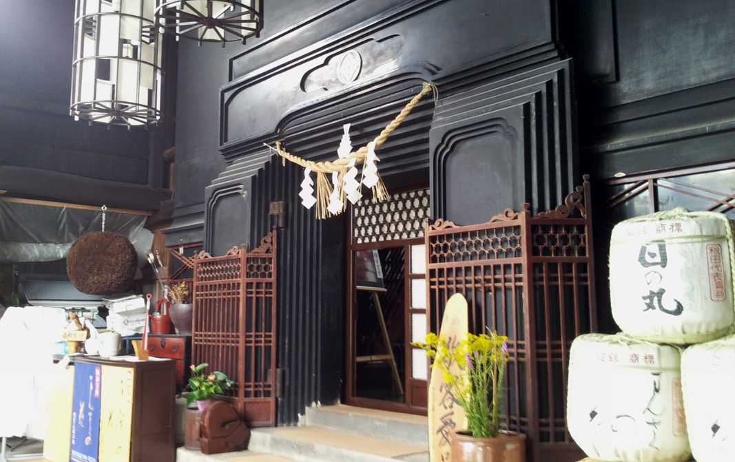 Bunkogura storehouse at the Hinomaru Jozo brewery in Yokote City, Akita Prefecture, Japan